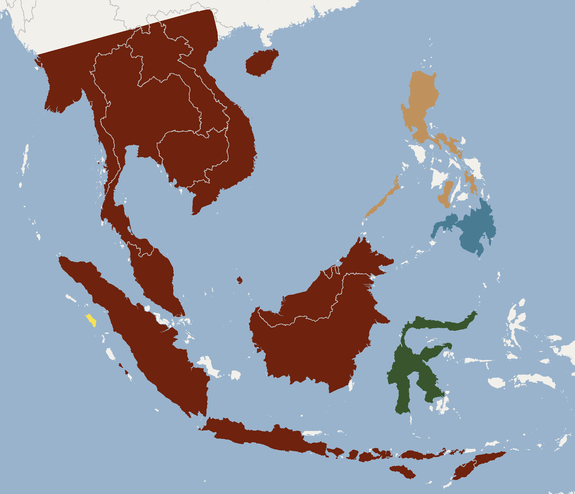 According to Francis, 2008, Corbet & Hill, 1992